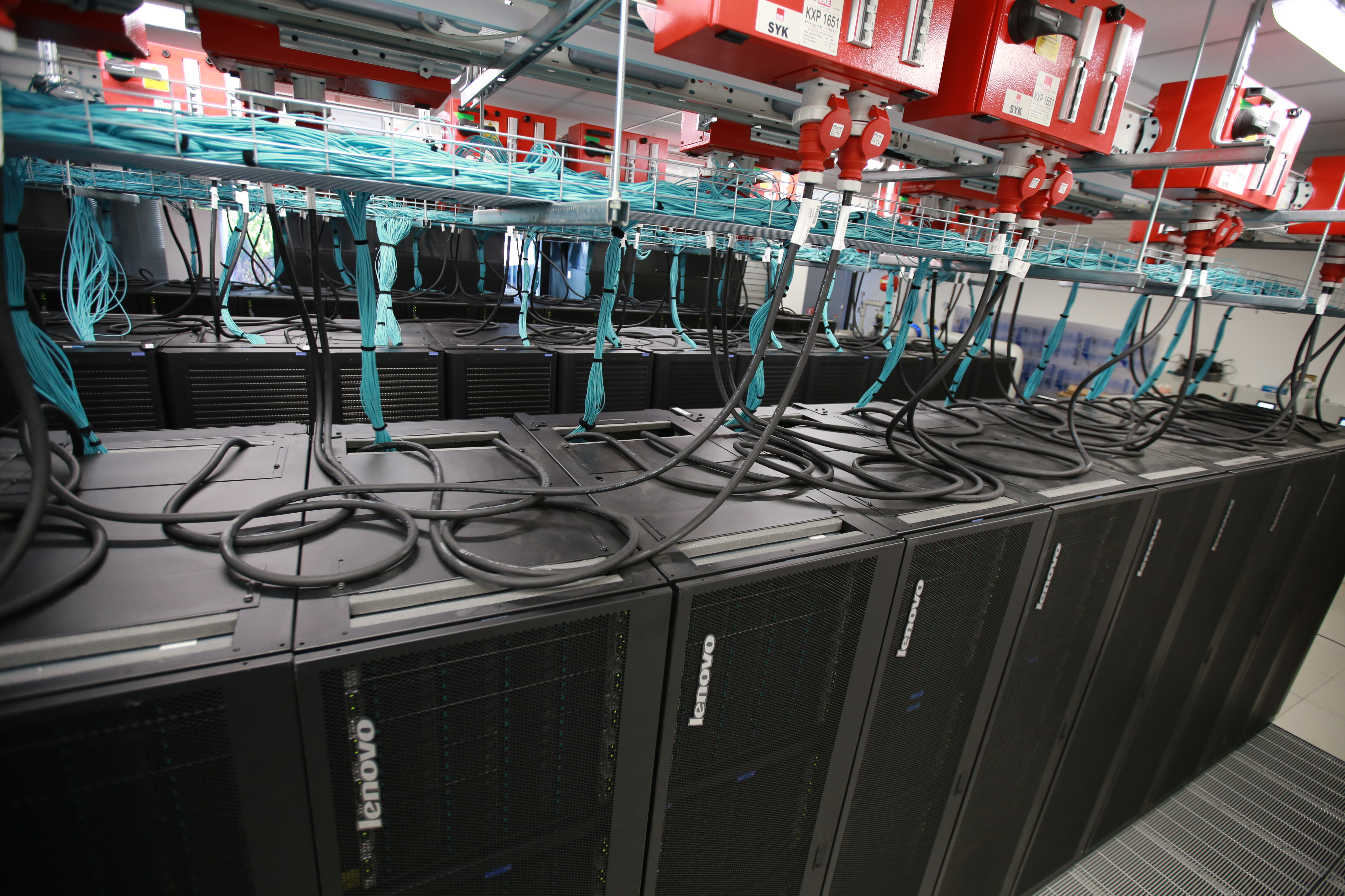 Side of supercomputer MARCONI is the new Tier-0 system, co-designed by CINECA and based on the Lenovo NeXtScale platform